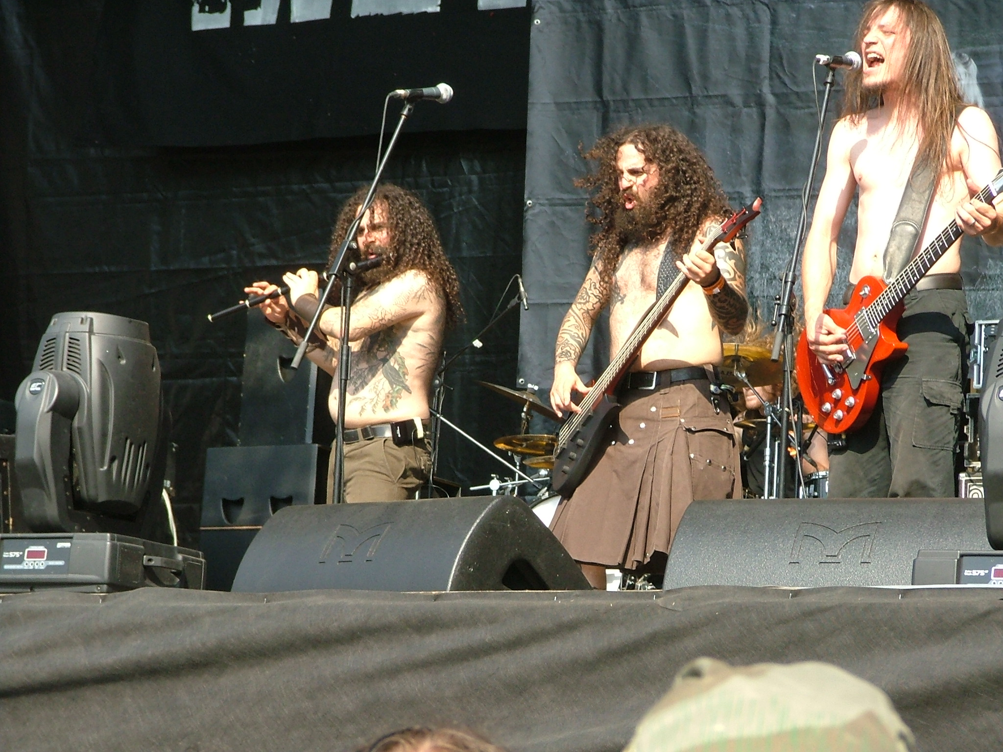 Swiss folk metal band Eluveitie at the Metalcamp in Tolmin